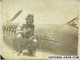 Abd al-Hamid Abu Zayd victories